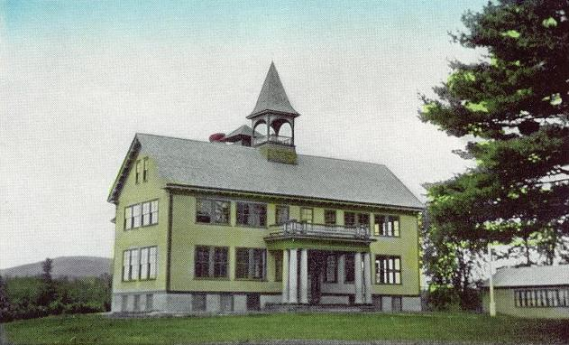 Conway Grammar School, Conway, NH; from a c. 1915 postcard.